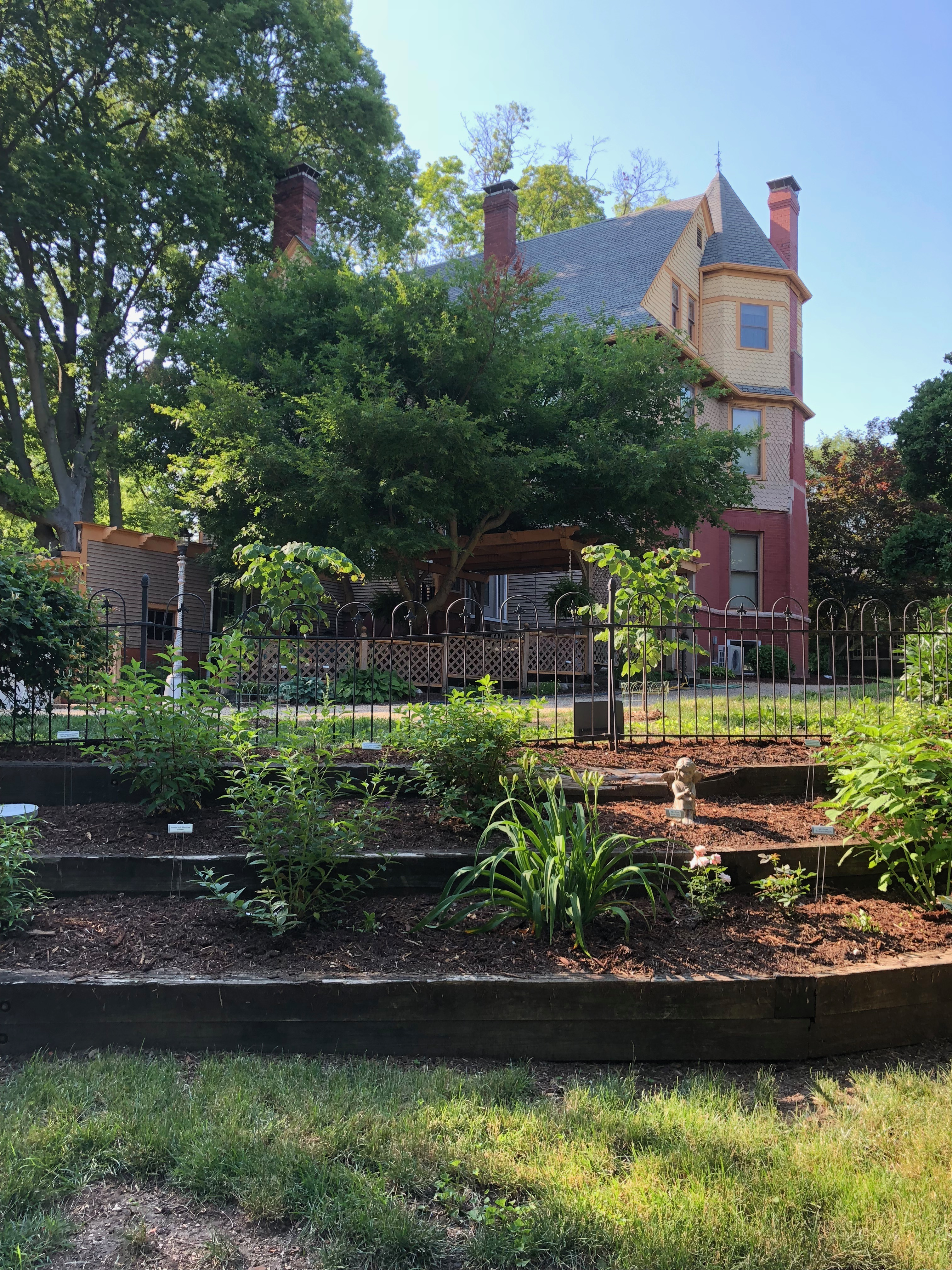 This photo was taken 17 June, 2018